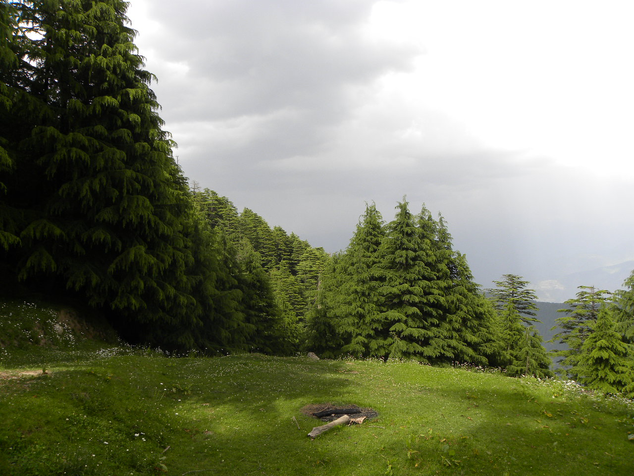 Splendid view of Dhauladhar Ranges of Himalayan from Kalatop wildlife sanctuary, with Cedrus deodara forest.